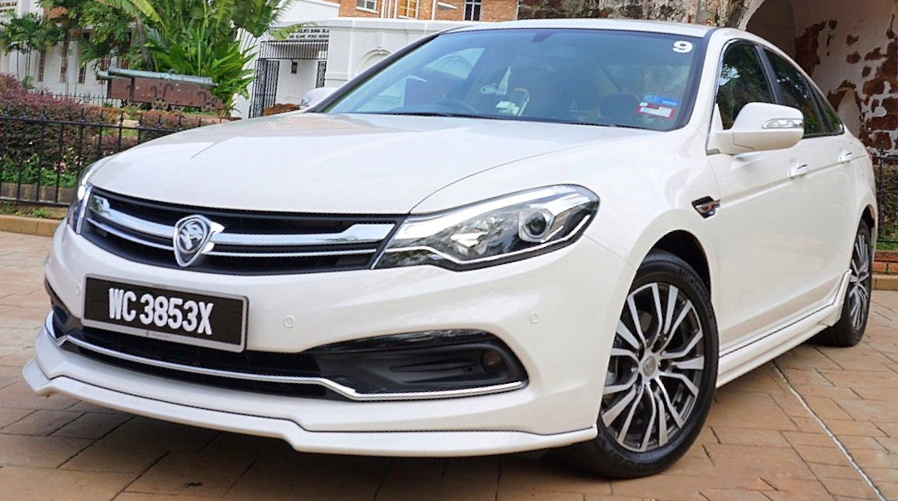 2.4L White Perdana